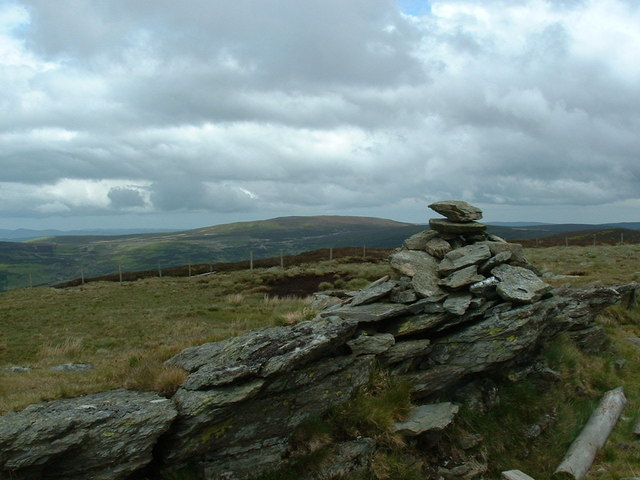 Cairn on 621 m height looking towards Moel Fferna, 5 km from Pentre, Wrexham/Wrecsam, Wales.